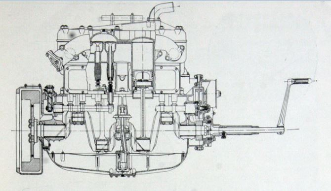 1920 Buda four cylinder engine as used in many makes of trucks and cars; side view